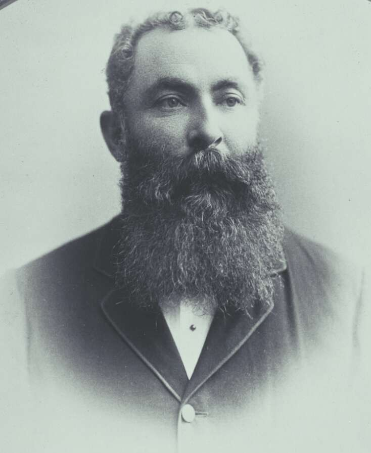 Vaiben Louis Solomon From the 1898 Australasian Federal Convention Album.